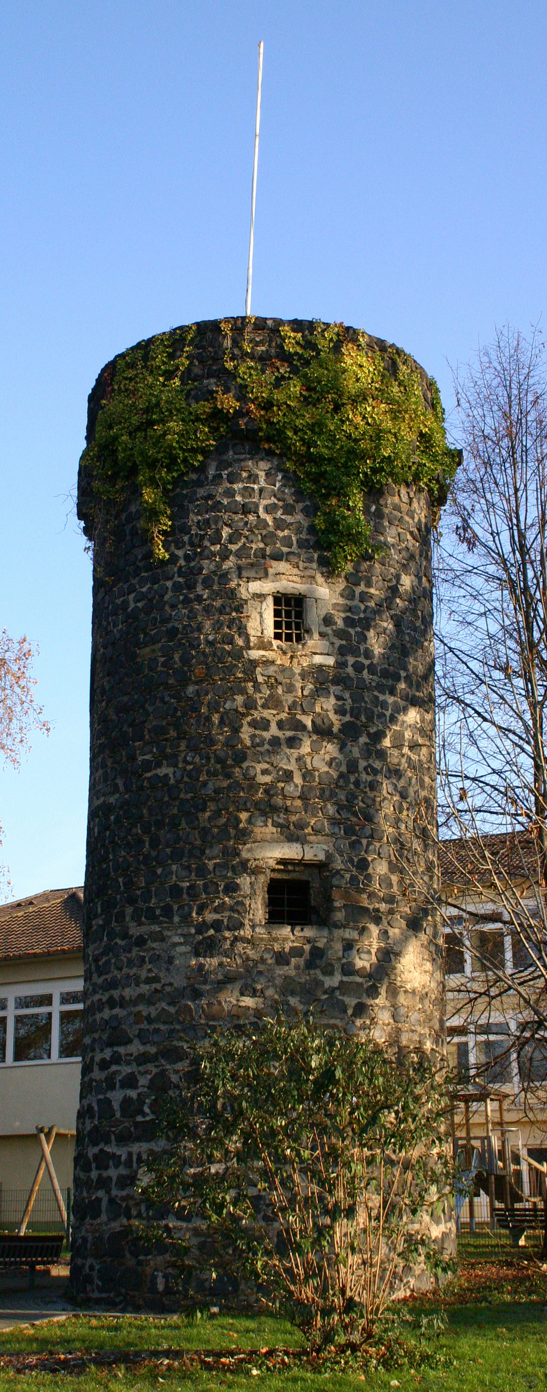 "Pulverturm" in Linz/Rhine, Germany Photo taken by René Rondot on 2004/12/10.